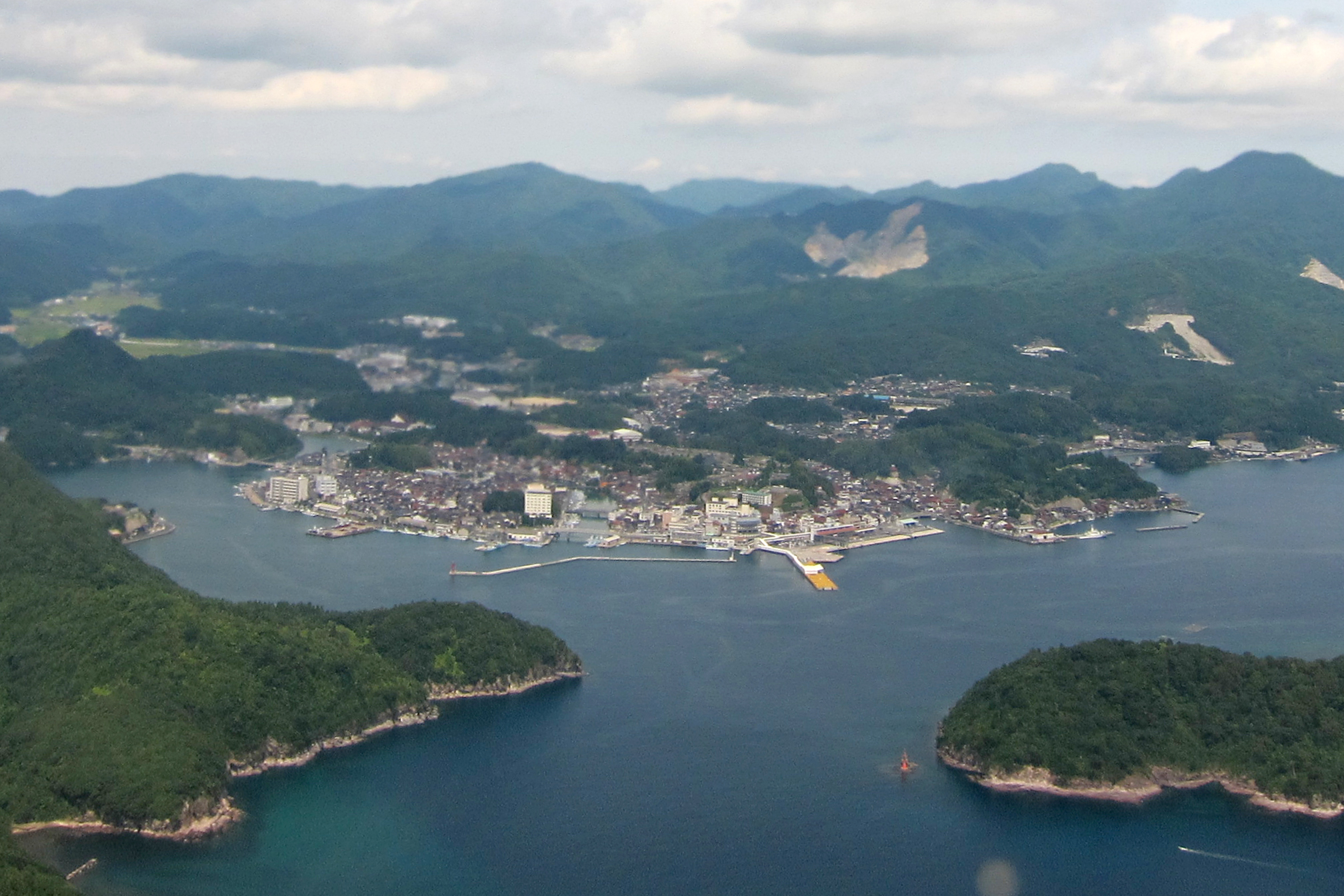 View of downtown of Okinoshima Town in Shimane Prefecture, Japan.